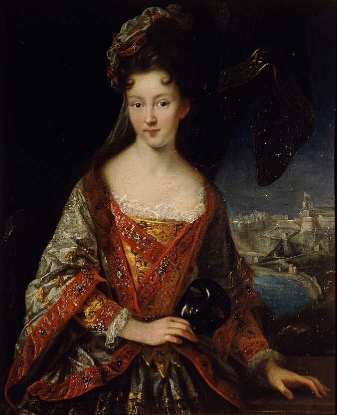 Portrait painted by Vanloe in 1712. This work of art is in the public domain by virtue of age (295 years old)